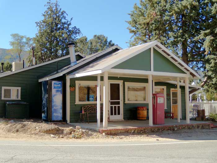 Former cafe in Three Points, California, now a residence, October 2008. Photo by George Garrigues.